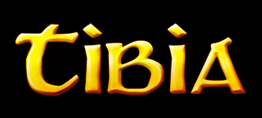 This is the official Tibia logo